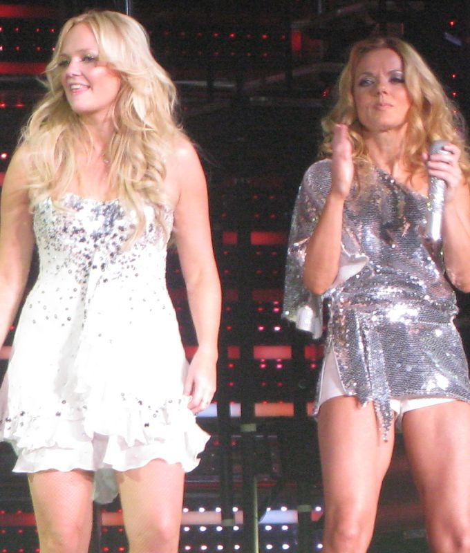 Geri Halliwell with Emma Bunton.